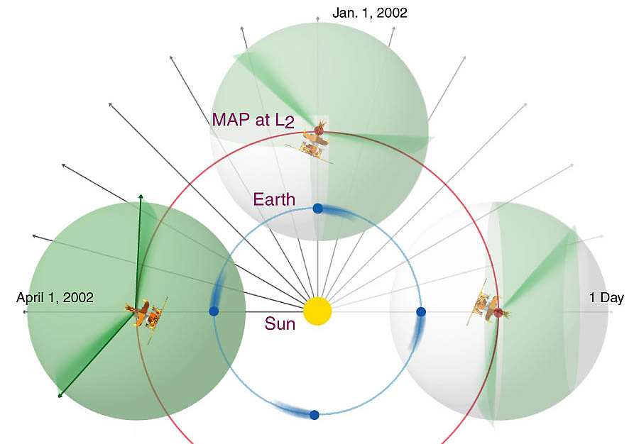 NASA-created illustration of the orbit of the Wilkinson Microwave Anisotropy Probe. "This orbit diagram shows the process by which WMAP collects data from the full sky over a six month period. Because WMAP must always face away from the sun, it can not view all portions of the sky until it rotates around the sun at the same rate as the Earth."